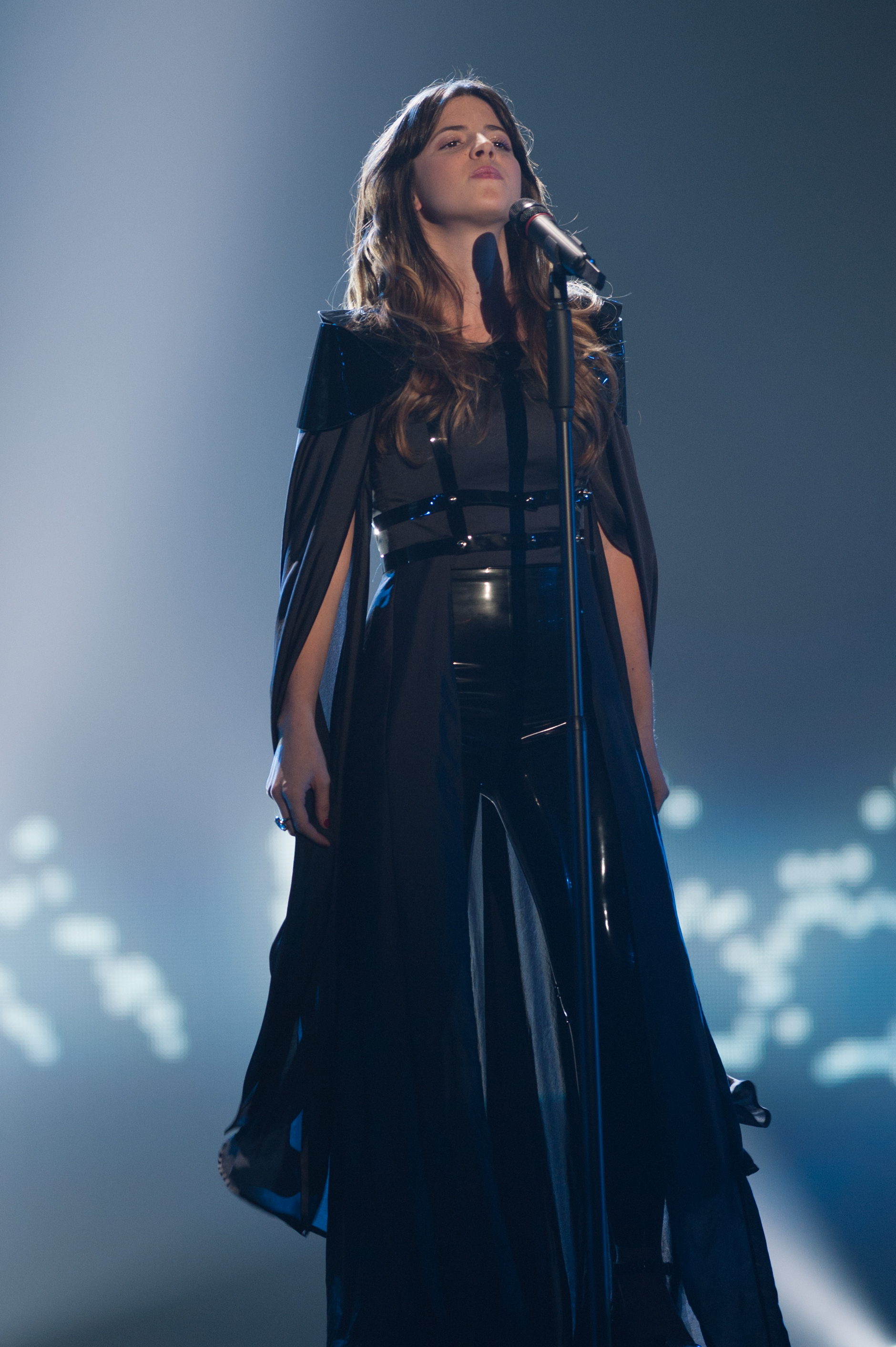 Eurovision Song Contest Vienna 2015: Leonor Andrade